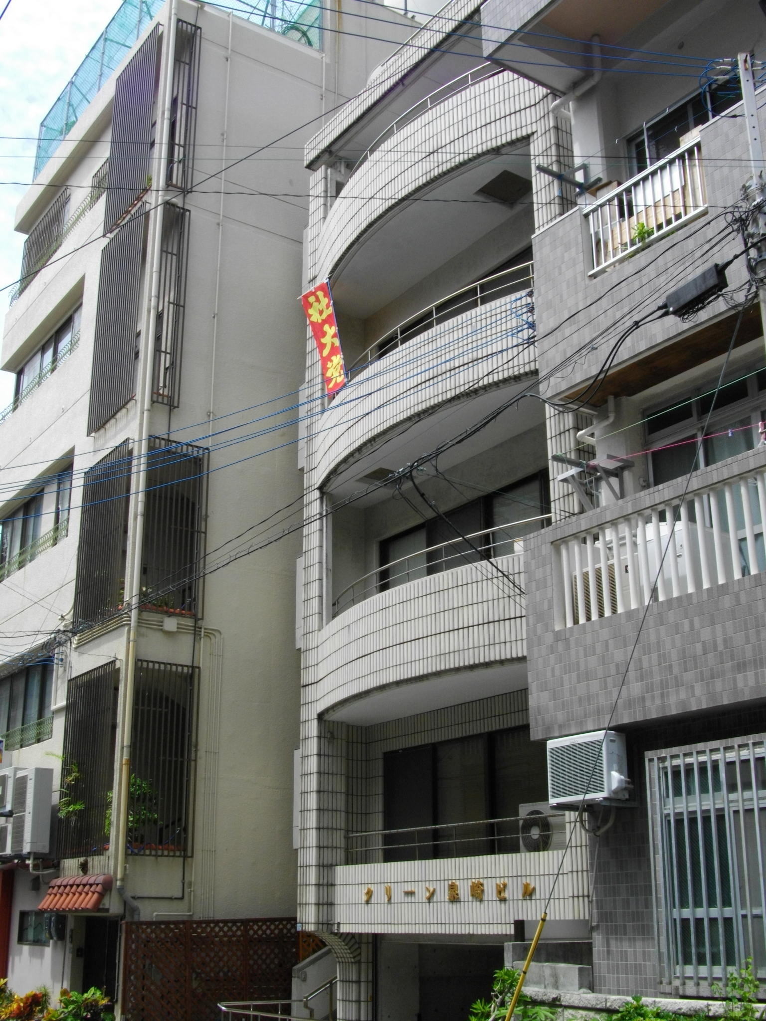 Okinawa Social Mass Party Headquaters